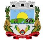 Coat of arms of the city of Jacuizinho, Rio Grande do Sul, Brazil.